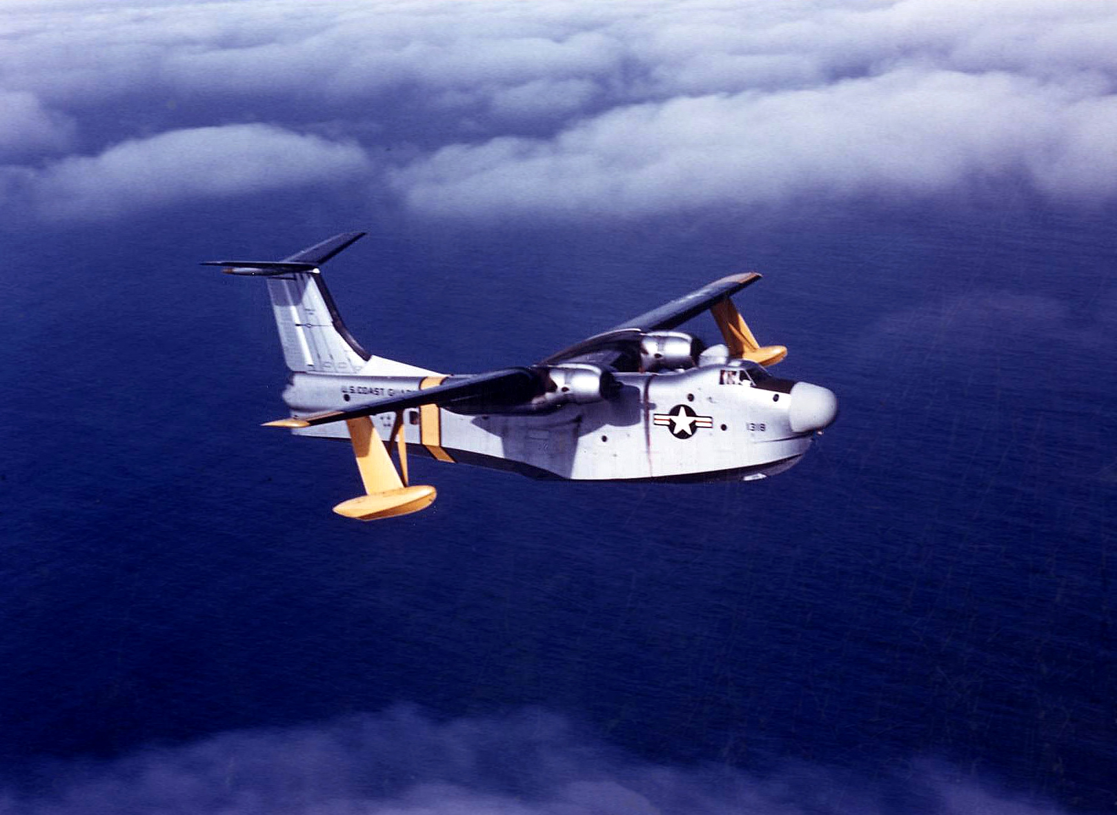 A U.S. Coast Guard Martin P5M-2G Marlin assigned to Coast Guard Air Station San Diego in flight on 28 January 1958.